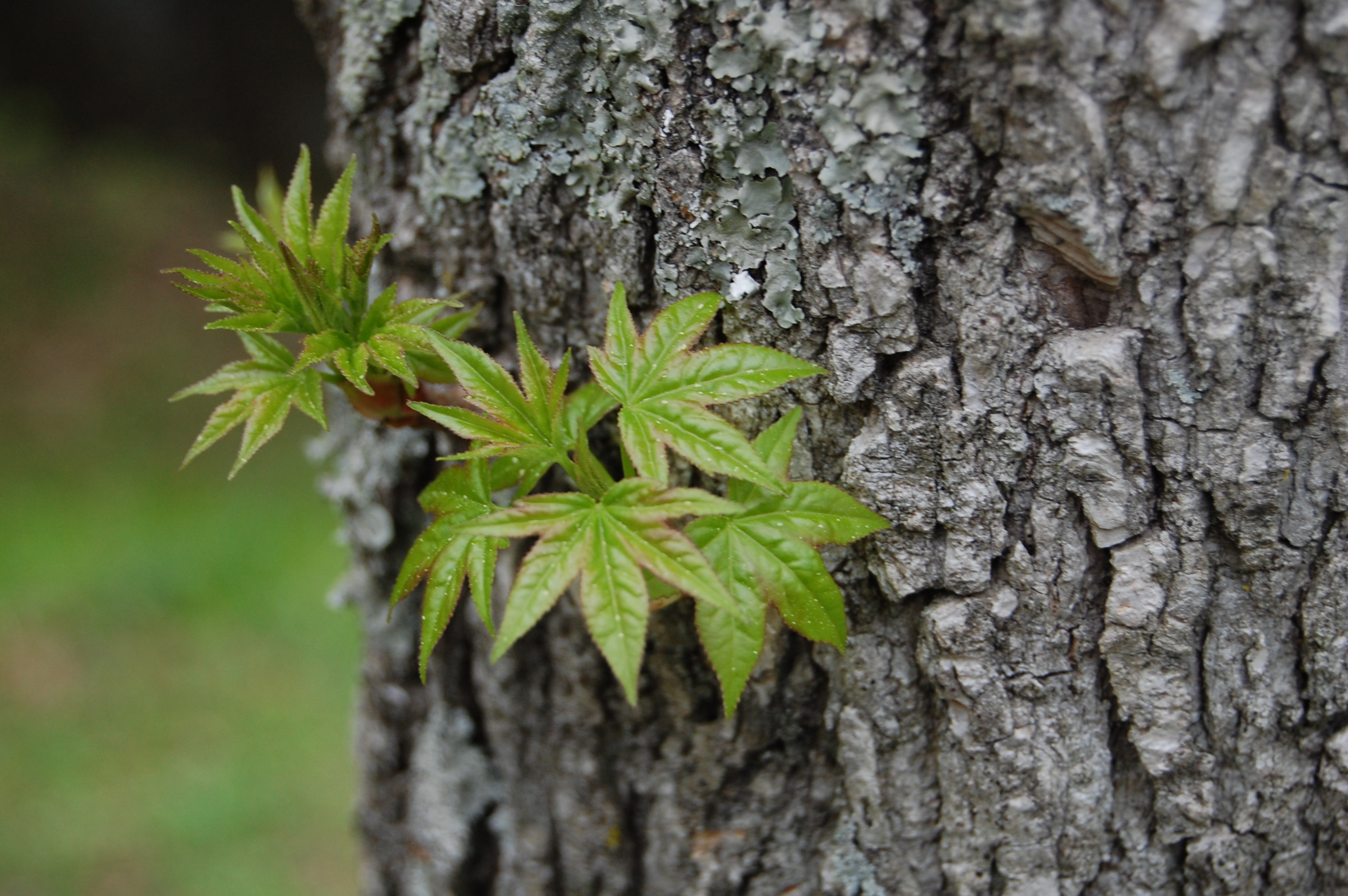 Palmately compounded leafs